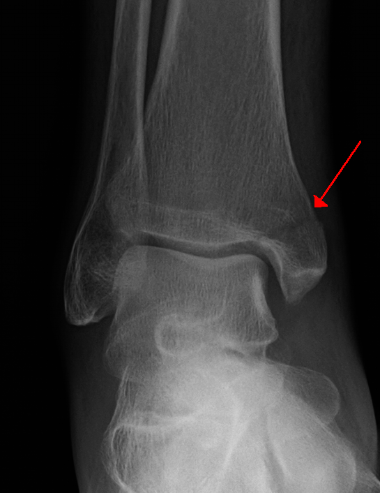 A intraarticular fracture of the medial malliolus